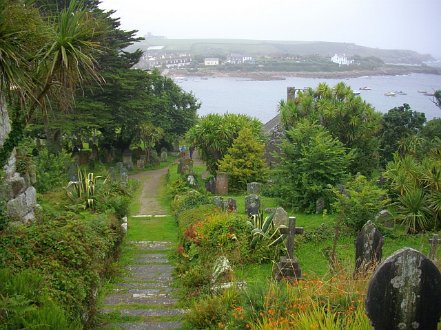 St. Mary's graveyard, Old Town A view from the Holzmaister obelisk down to the church (on the right of the path) and over the bay to Old Town harbour.